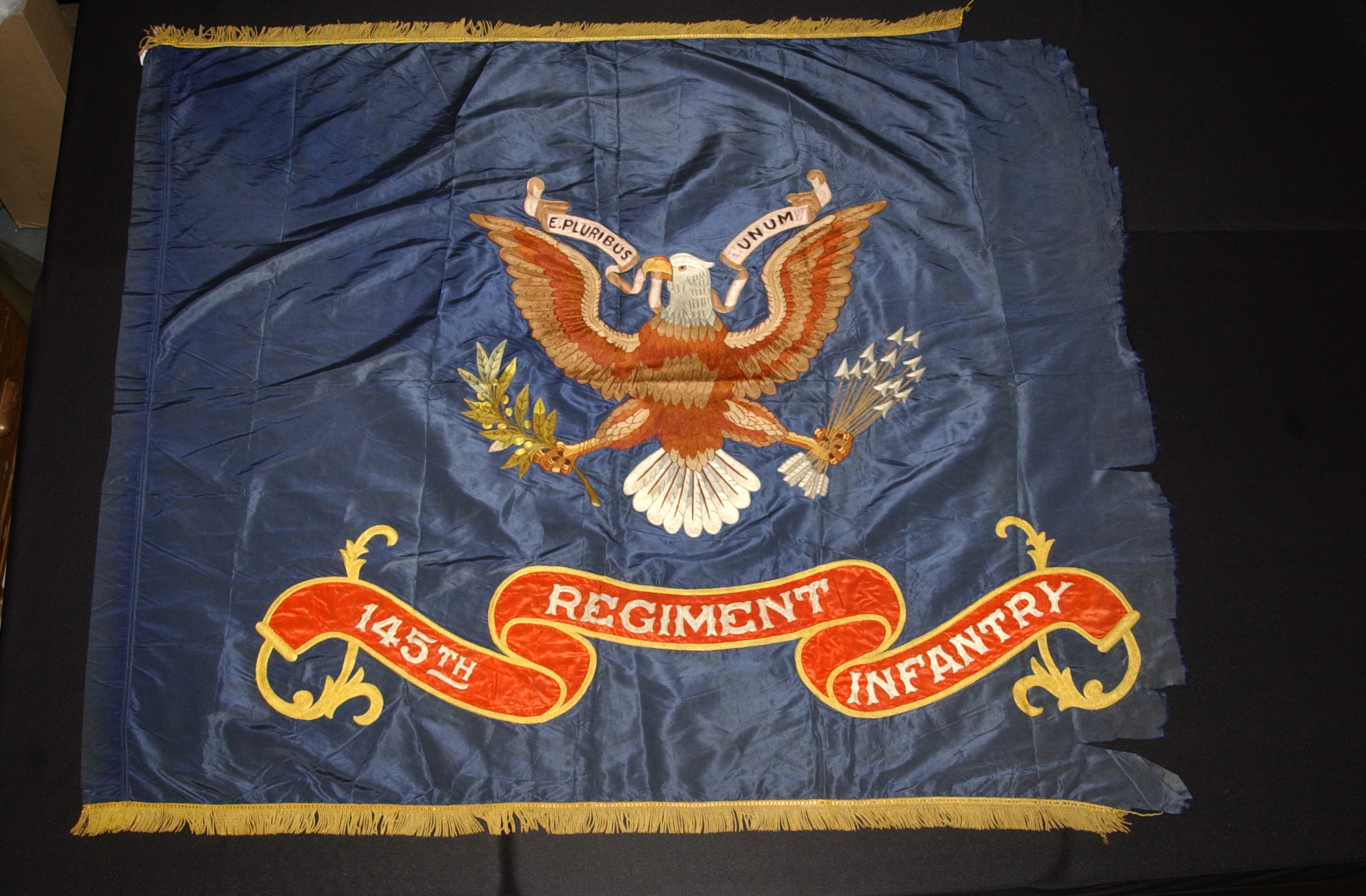 Pre-1928 Regimental Colors of the 145th Infantry Regiment.JPG